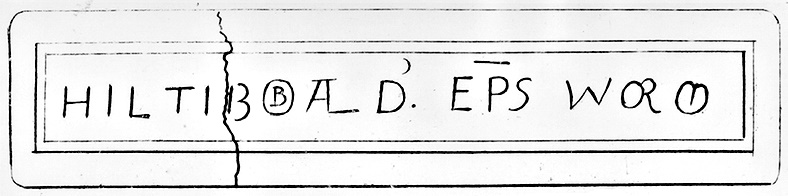 Zeichnung der Grabplatte des Wormser Bischofs Hildebold (+ 998), ehemals Cyriakusstift Worms-Neuhausen